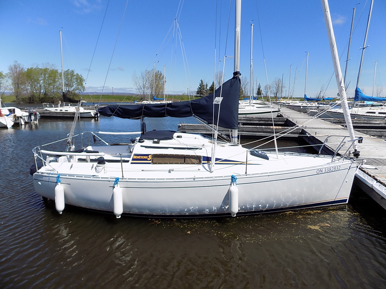 A Beneteau First 235 sailboat named Sparrow